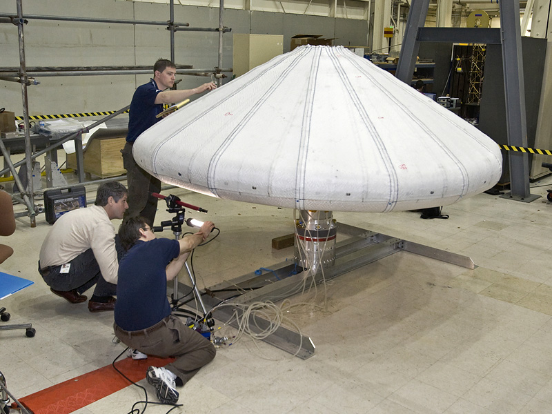 NASA engineers check out the Inflatable Re-entry Vehicle Experiment (IRVE) in the lab at the Langley Research Center. IRVE was launched on 17 August 2009 on a Black Brant 9 sounding rocket from the Wallops Flight Facility, performing as engineers expected. This is the first time an inflatable structure has served as a heat shield for atmospheric reentry.